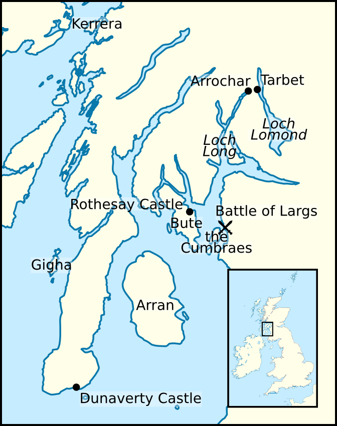 The location of the Battle of Largs, fought in 1263, and other important locations. For the location of the battle I used the following source: Alexander, Derek; Neighbour, Tim; Oram, Richard D. (2000), "Glorious Victory? The Battle of Largs, 2 October 1263", History Scotland, 2, pp. 17–22.